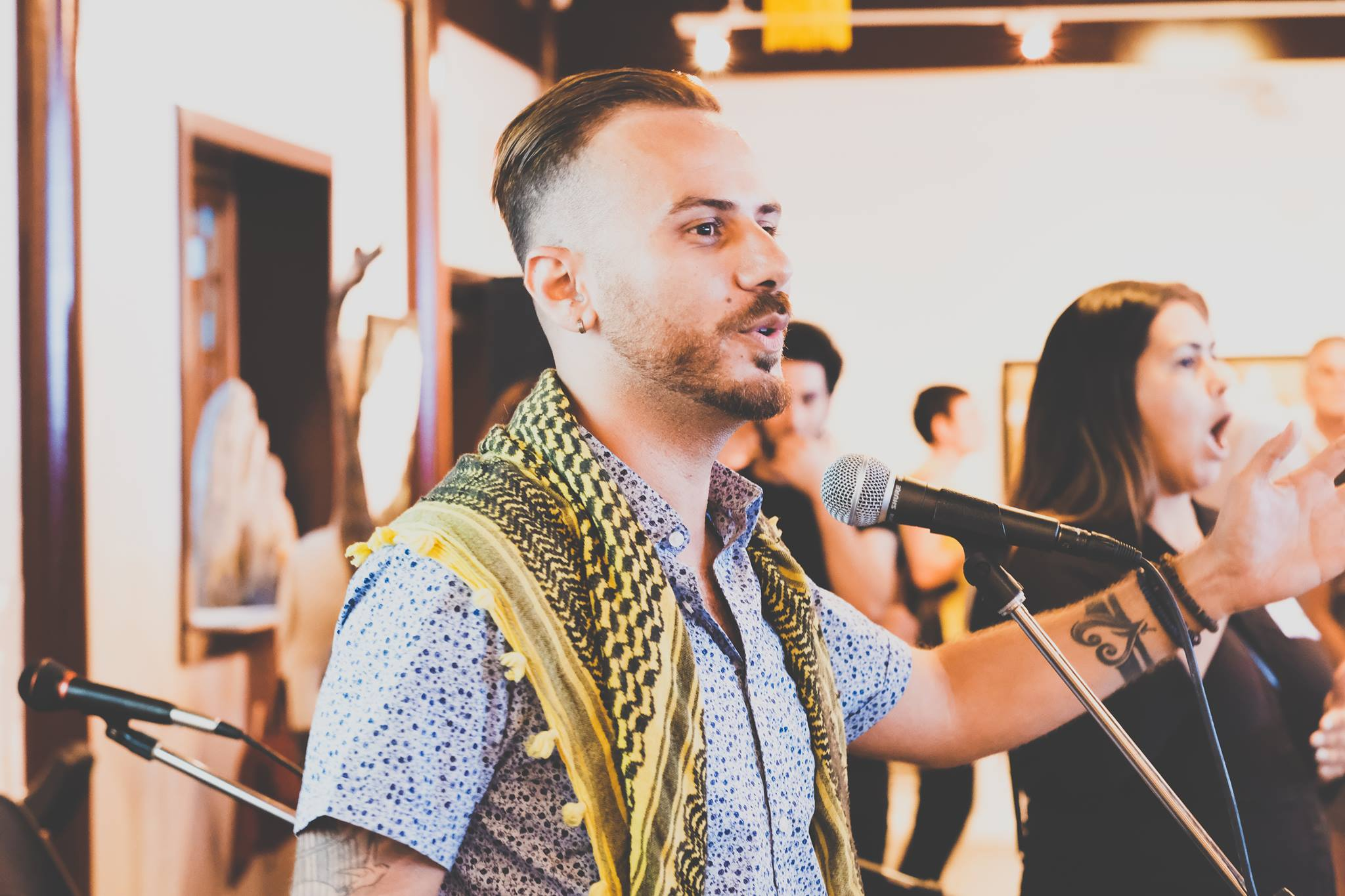 photo of Danny Ramadan at his annual fundraiser An Evening in Damascus